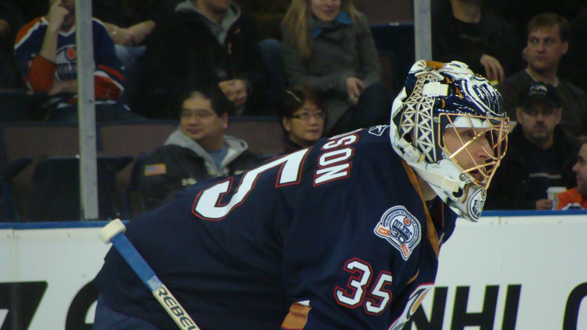 Hockey Player,Edmonton Oilers" Dwayne Roloson #35